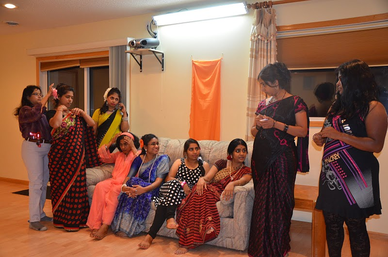 Kitty party 130